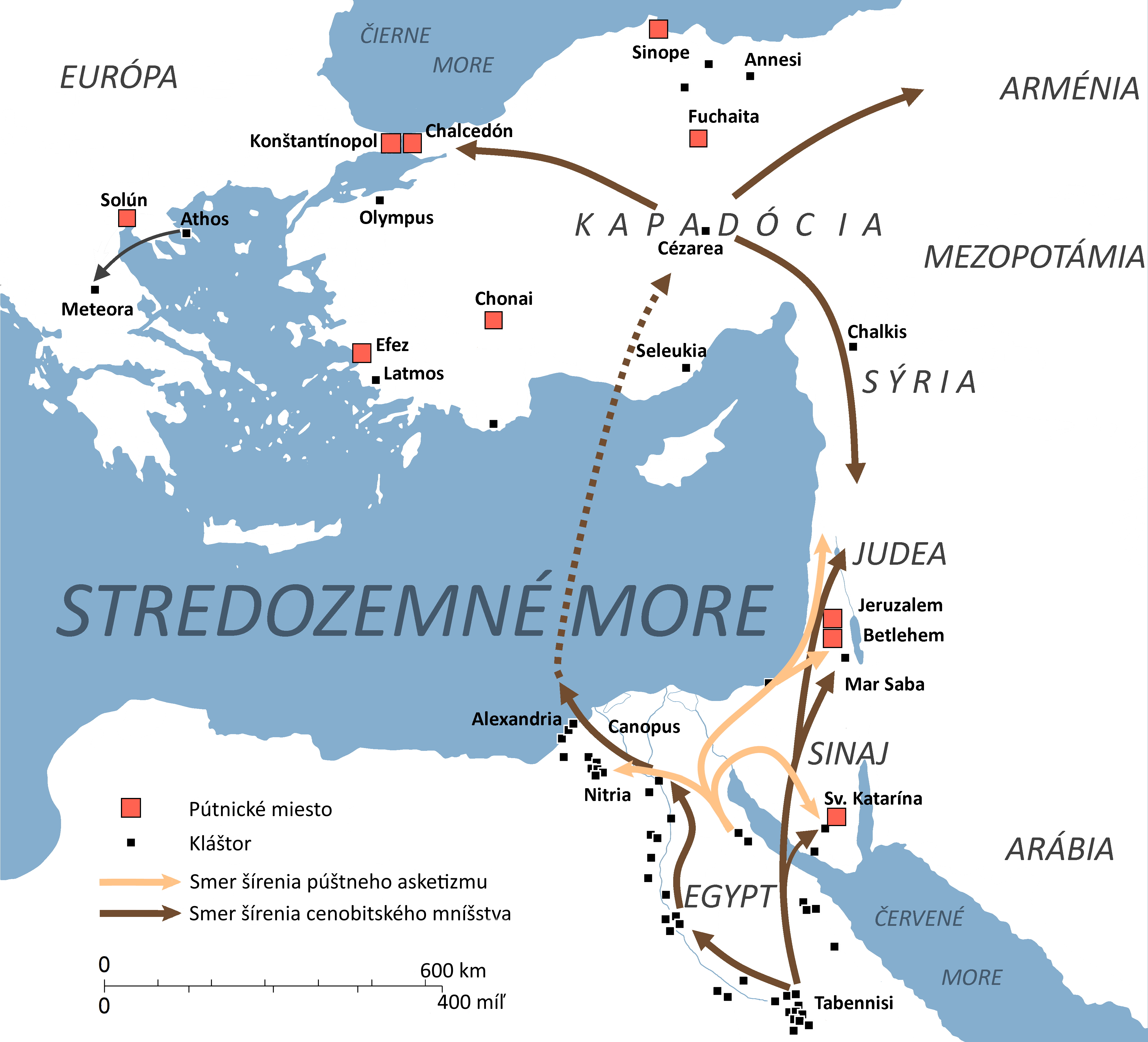 The spread of monasticism from Egypt. By: HALDON, J. The Palgrave Atlas of Byzantine History. Springer, 2005. ISBN 978-0-230-27395-5. p. 53, map in Slovak language